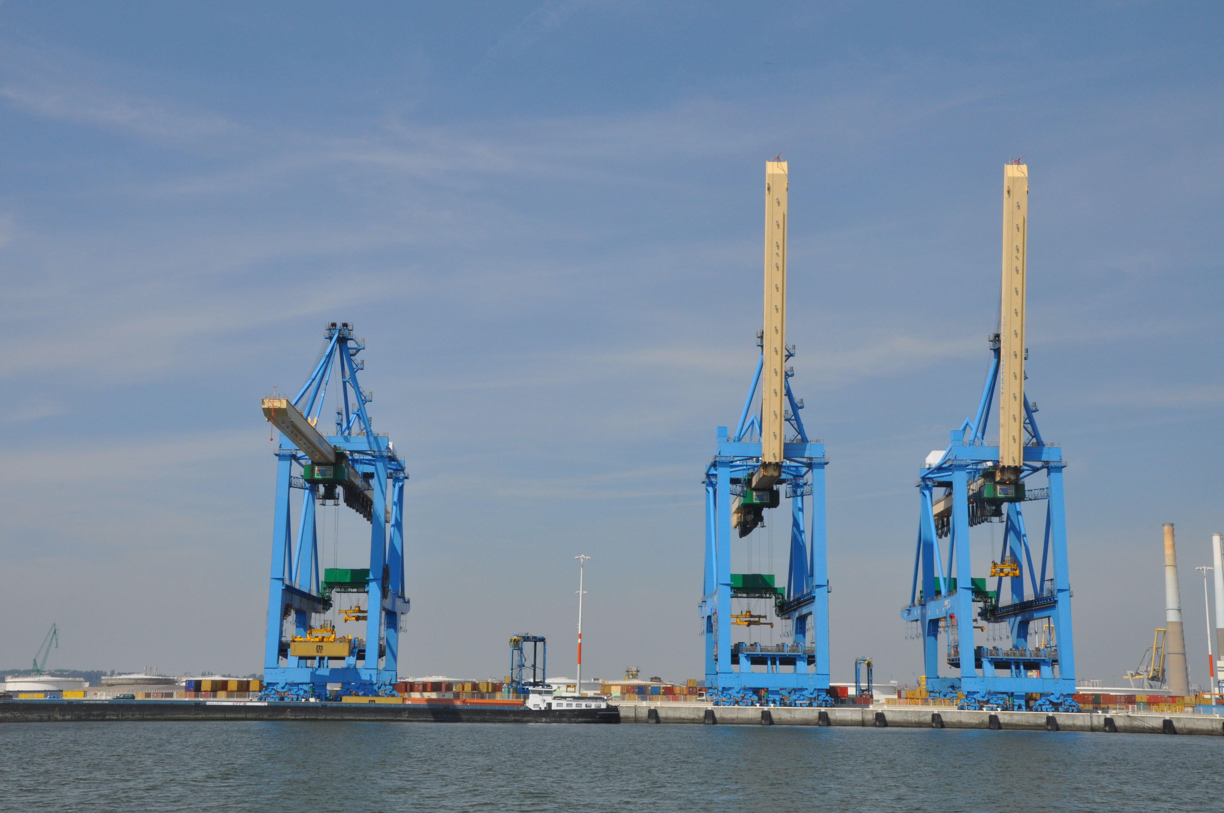 Le Havre (France, Normandy), containers cranes in new containers terminal of Port 2000. Wed can see activity on left crane.